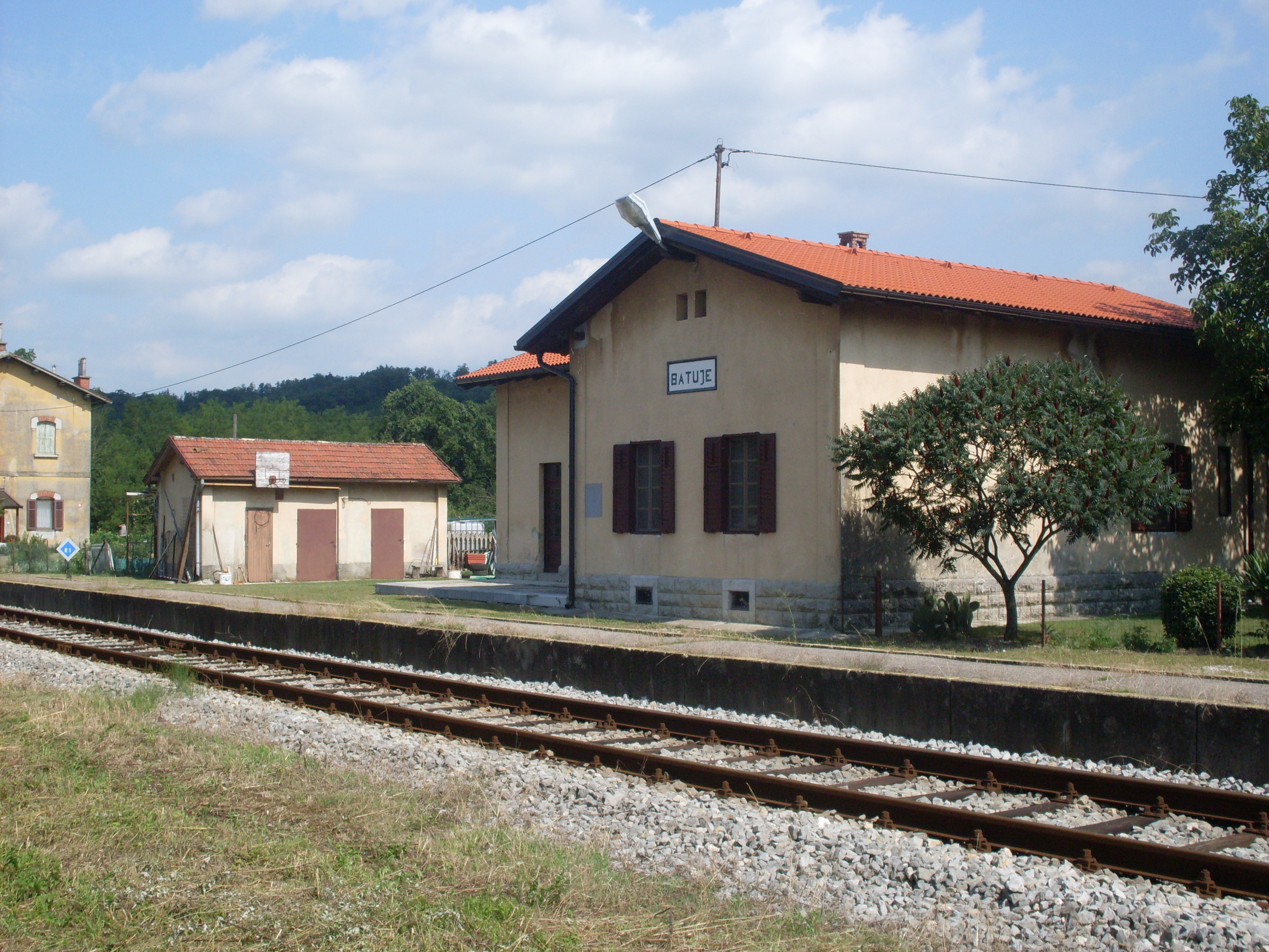 Railway halt in BatujeSlovenščina: Železniško postajališče Batuje